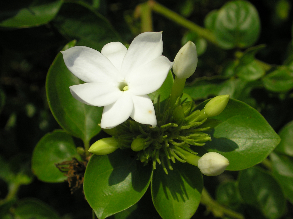 Fy: Oleaceae The jasmin without any smell.